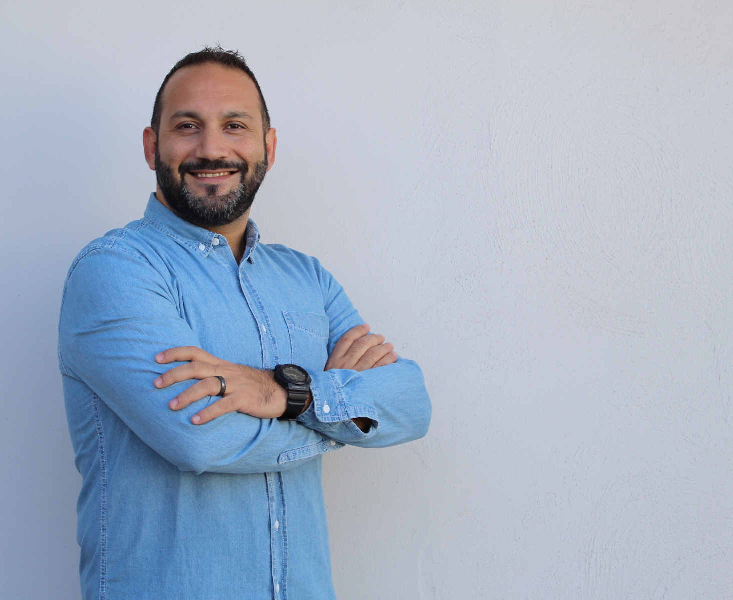 Naman Tarcha Giornalista e Conduttore tv